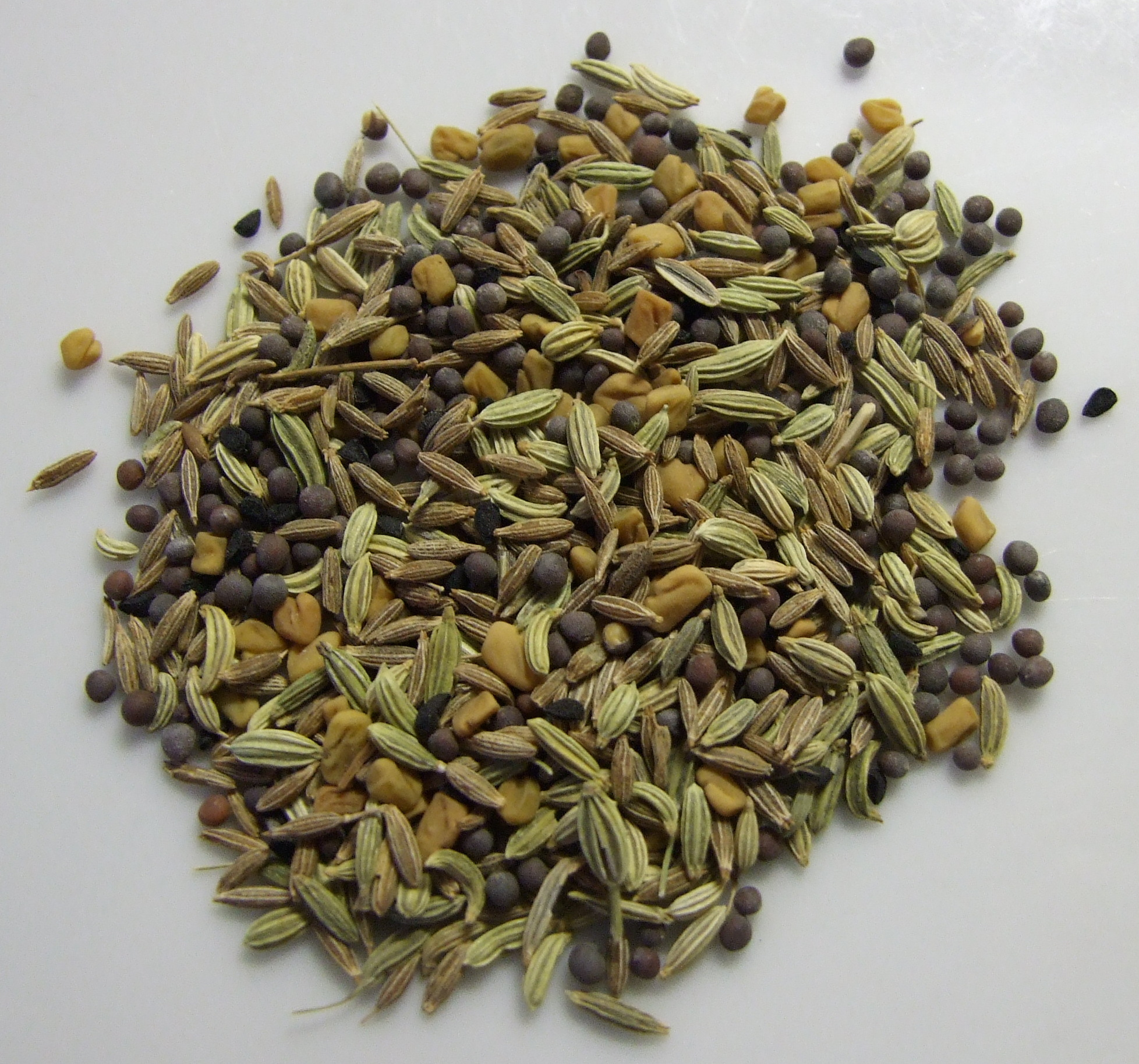 Panch Phoron, a spice blend used in Bangladesh and Eastern India, especially in Bengali, Assamese and Oriya cuisine.